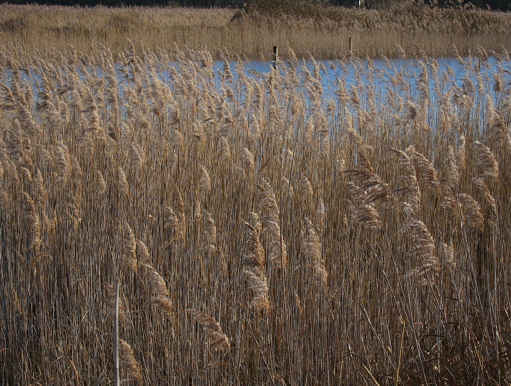 Phragmites (reeds) and water at Redgrave Fen, Norfolk/Suffolk, UK